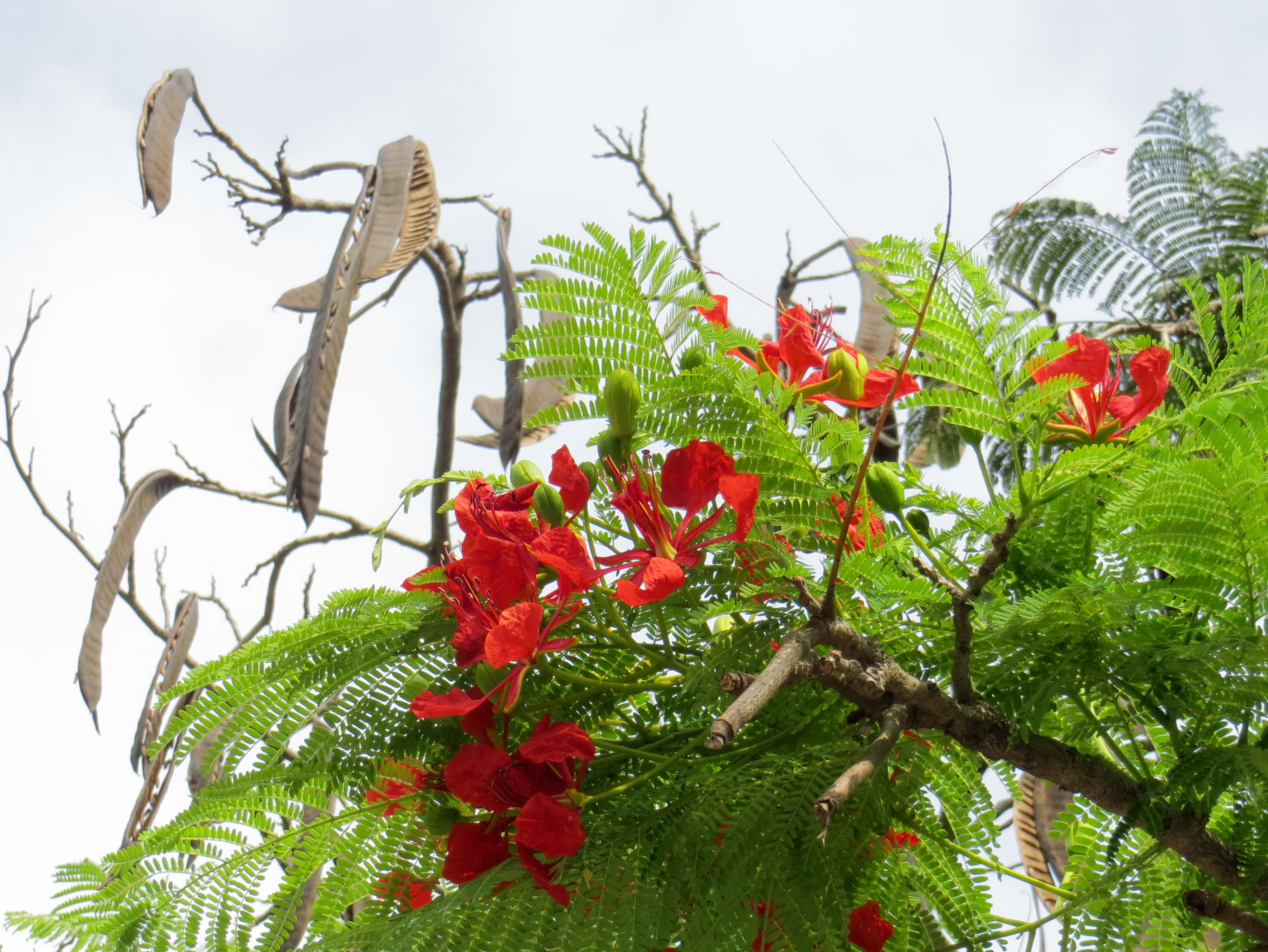 Flowers, leaves, and seed pods of a Flamboyant tree (Delonix regia)